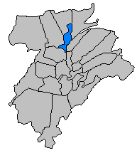 Map of Luxembourg City, Luxembourg, with the boundaries of the city's twenty-four quarters demarcated and the quarter of Eich highlighted in blue.